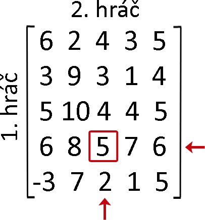 Matrix with a saddle point